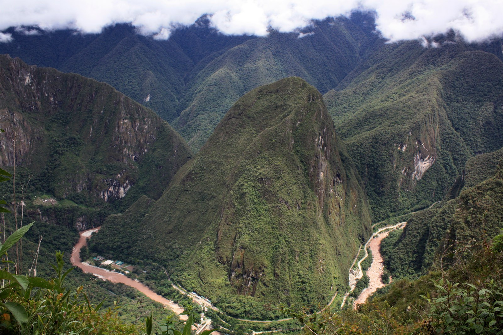 Urubamba River, view from Machu Picchu